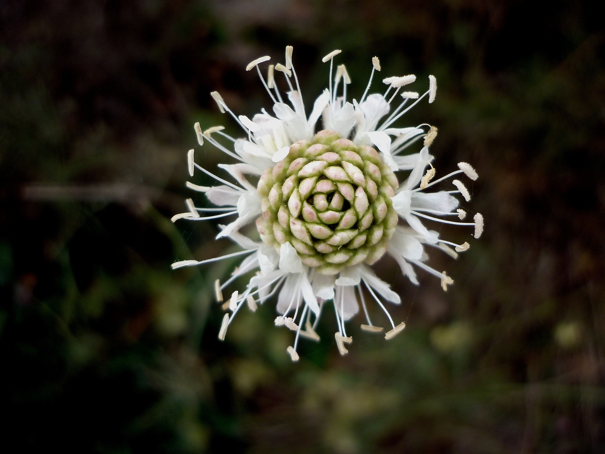 Cephalaria leucantha. In Torà (Segarra-Catalunya). To 590 m. altitude